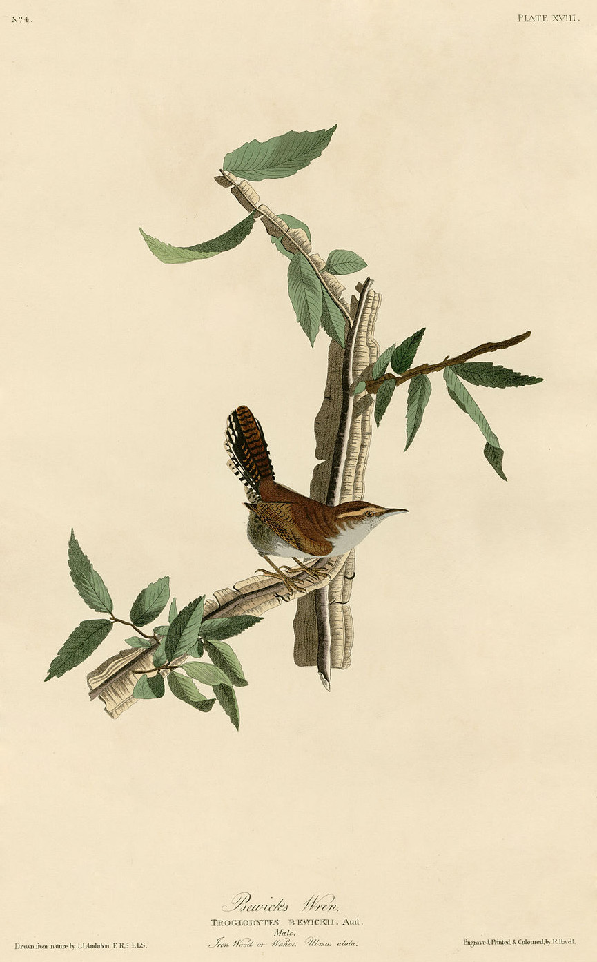 Plate 18 of Birds of America by John James Audubon depicting Bewick's Wren.